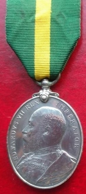 British award for 12 years service in the Territorial Force, obverse awarded from 1908-11